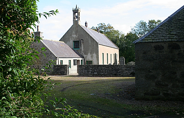 Parish Kirk, Drumblade Seen from between the large range of outbuildings between the kirk and the manse.